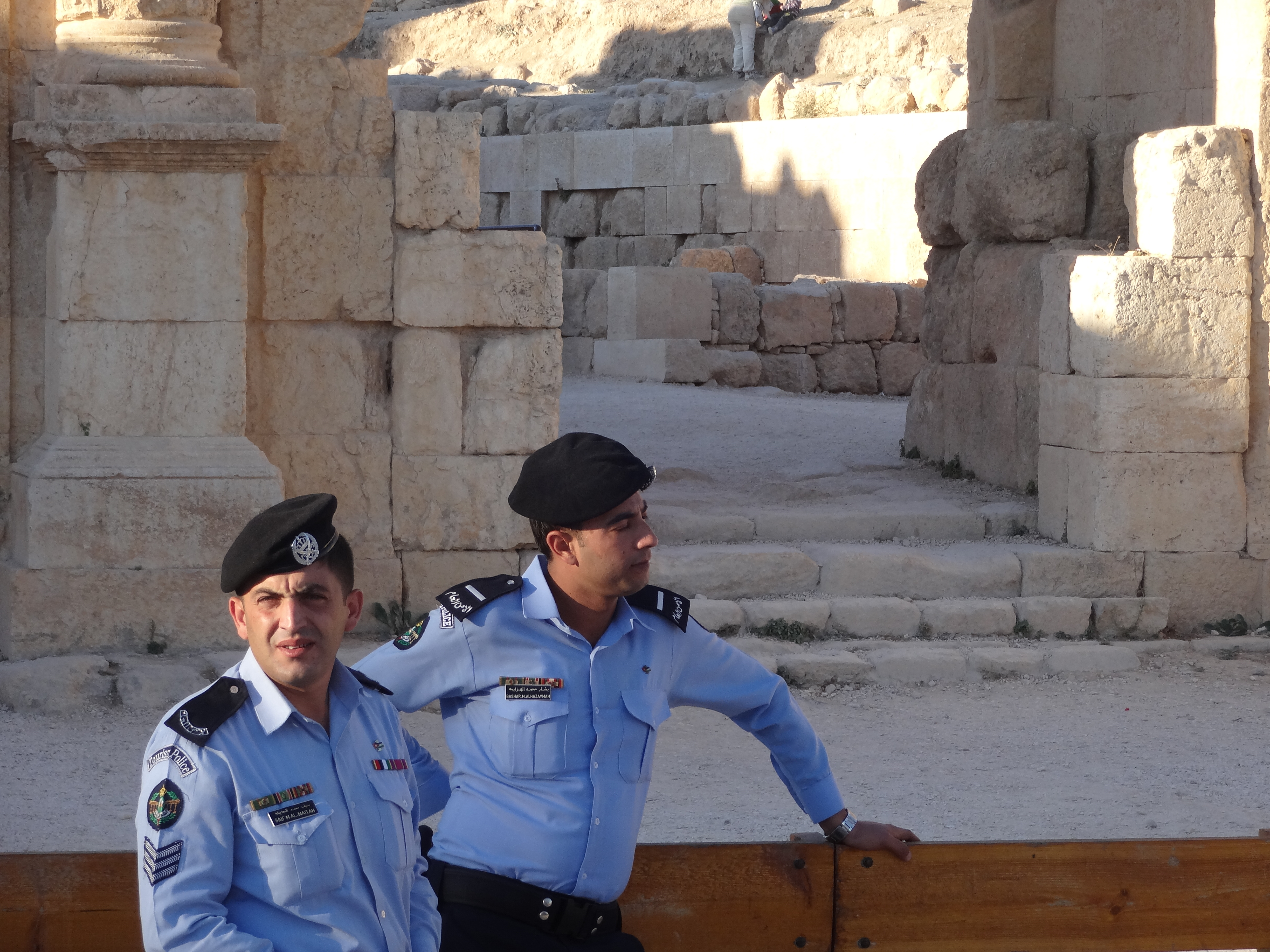 Remains in the Greco-Roman Jerash include: The Corinthium column Hadrian's Arch The circus/hippodrome The two large temples (dedicated to Zeus and Artemis) The nearly unique oval Forum, which is surrounded by a fine colonnade, The long colonnaded street or cardo Two theatres (the Large South Theatre and smaller North Theatre) Two baths, and a scattering of small temples An almost complete circuit of city walls. Most of these monuments were built by donations of the city's wealthy citizens. From AD 350, a large Christian community lived in Jerash, and between AD 400-600, more than thirteen churches were built, many with superb mosaic floors. A cathedral was built in the 4th century. An ancient synagogue with detailed mosaics, including the story of Noah, was found beneath a church.